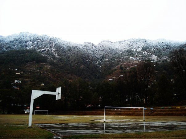 Snow-clad Shivapuri mountain overlooking the middle pitch and outdoor basketball court.